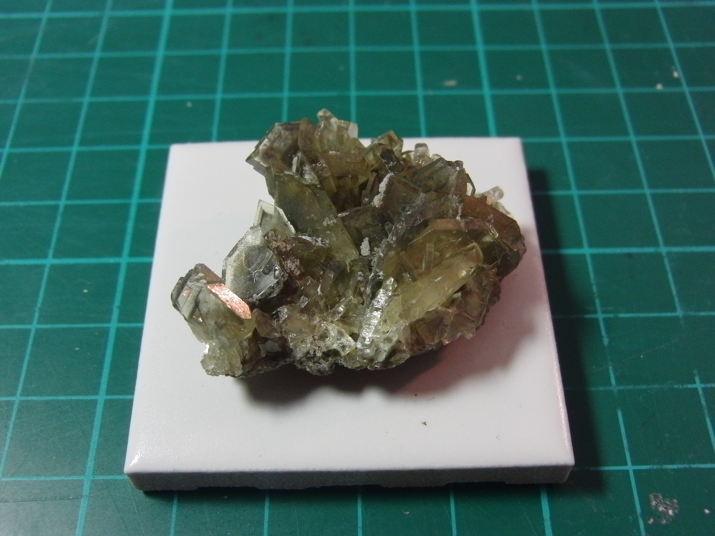 Baryte.